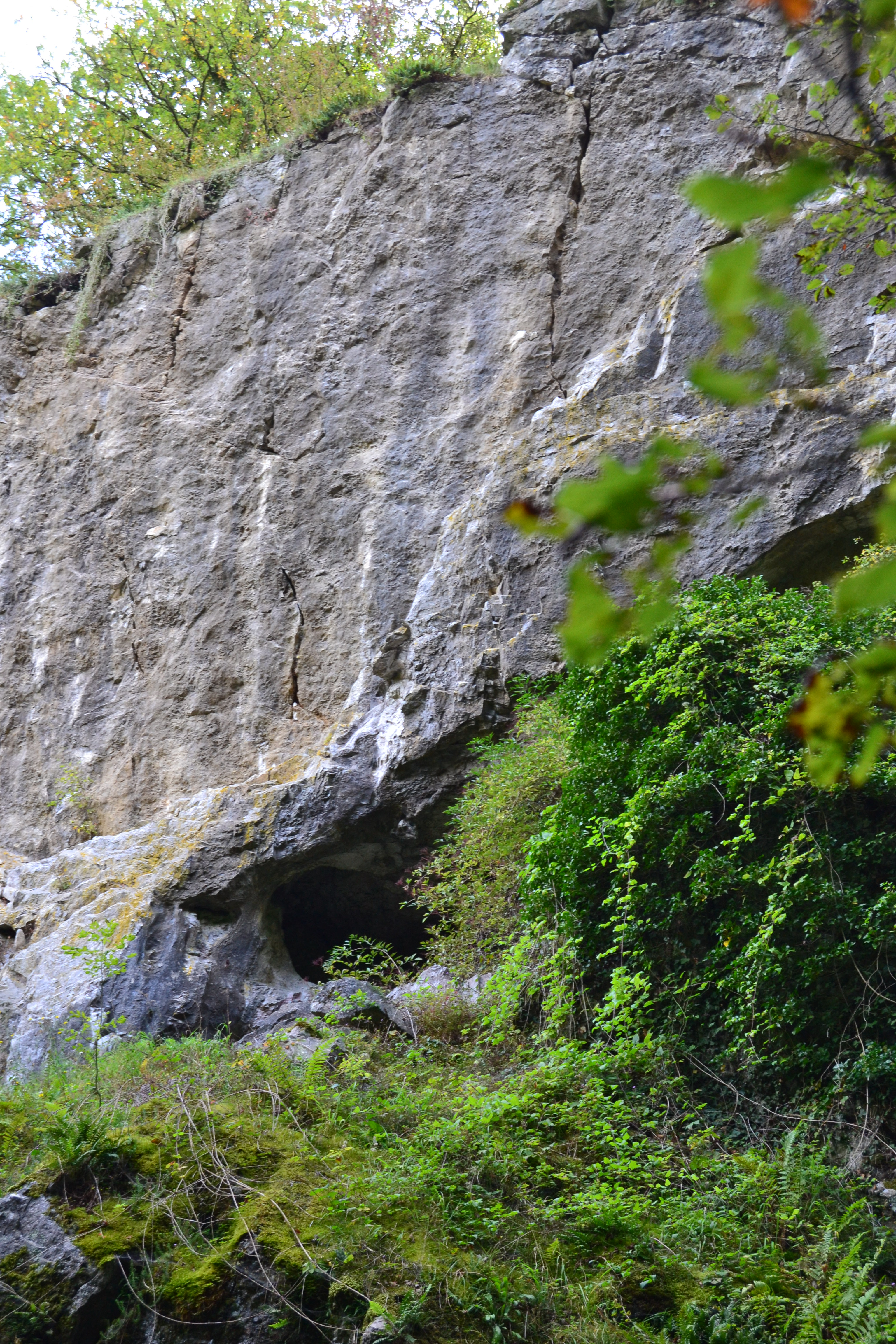 Upper Cave amongst the Schmerling Caves, place of the first discovered neandertalian remains by Philippe-Charles Schmerling in 1830 - Awirs, Flémalle / Engis, Liège, Belgium